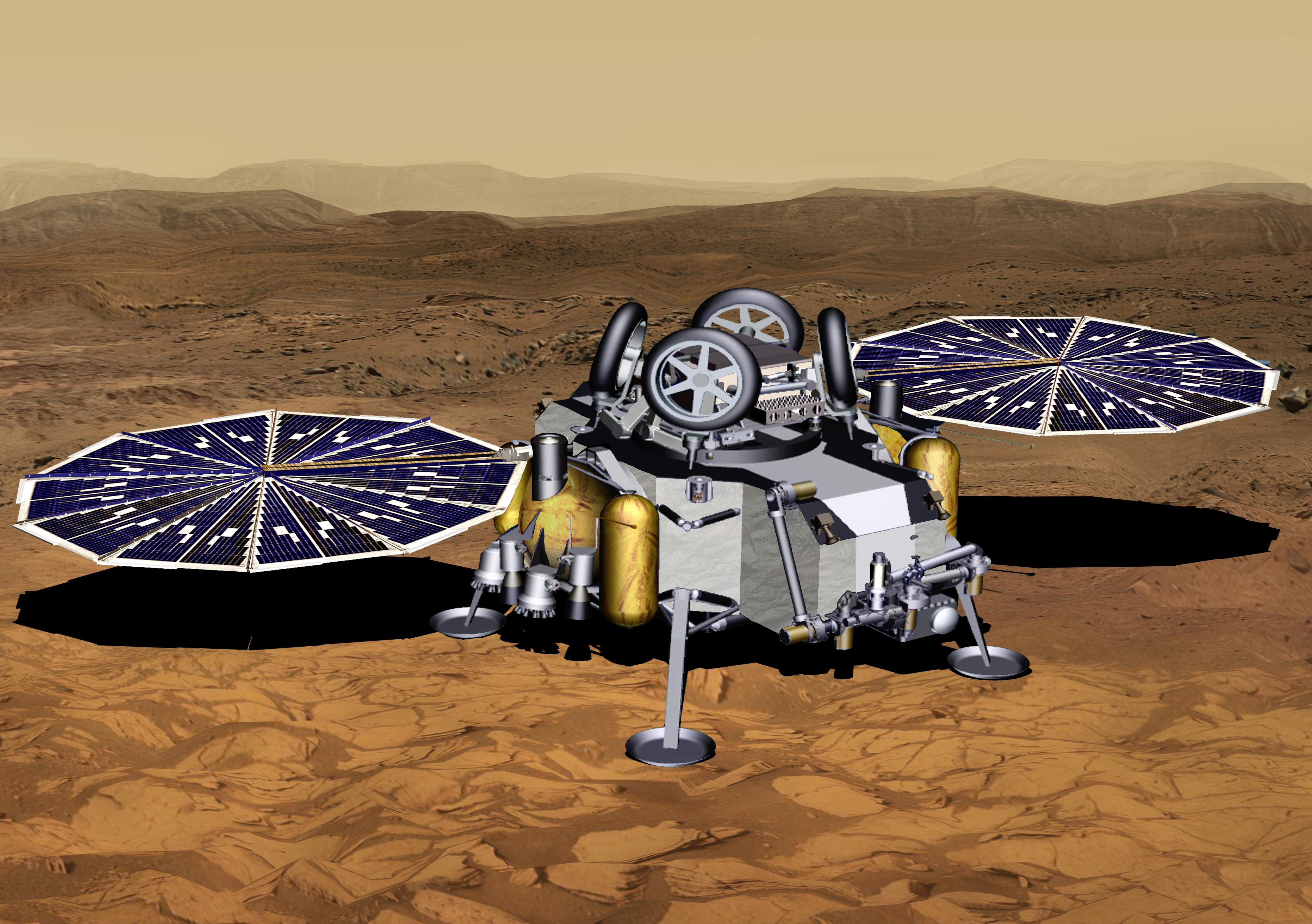 PIA23711: Mars Sample Return Lander With Solar Panels Deployed (Artist's Concept) This illustration of a Mars sample return mission's lander concept shows a spacecraft after touchdown on the Red Planet. With its solar planels fully deployed, the spacecraft is ready to begin surface operations. NASA and the European Space Agency are solidifying concepts for a Mars sample return mission after NASA's Mars 2020 rover collects rock and soil samples and stores them in sealed tubes on the planet's surface for potential future return to Earth. NASA will deliver a Mars lander in the vicinity of Jezero Crater, where Mars 2020 will have collected and cached samples. The lander will carry a NASA rocket (the Mars Ascent Vehicle) along with ESA's Sample Fetch Rover that is roughly the size of NASA's Opportunity Mars rover. The fetch rover will gather the cached samples and carry them back to the lander for transfer to the ascent vehicle; additional samples could also be delivered directly by Mars 2020. The ascent vehicle will then launch from the surface and deploy a special container holding the samples into Mars orbit. ESA will put a spacecraft in orbit around Mars before the ascent vehicle launches. This spacecraft will rendezvous with and capture the orbiting samples before returning them to Earth. NASA will provide the payload module for the orbiter.